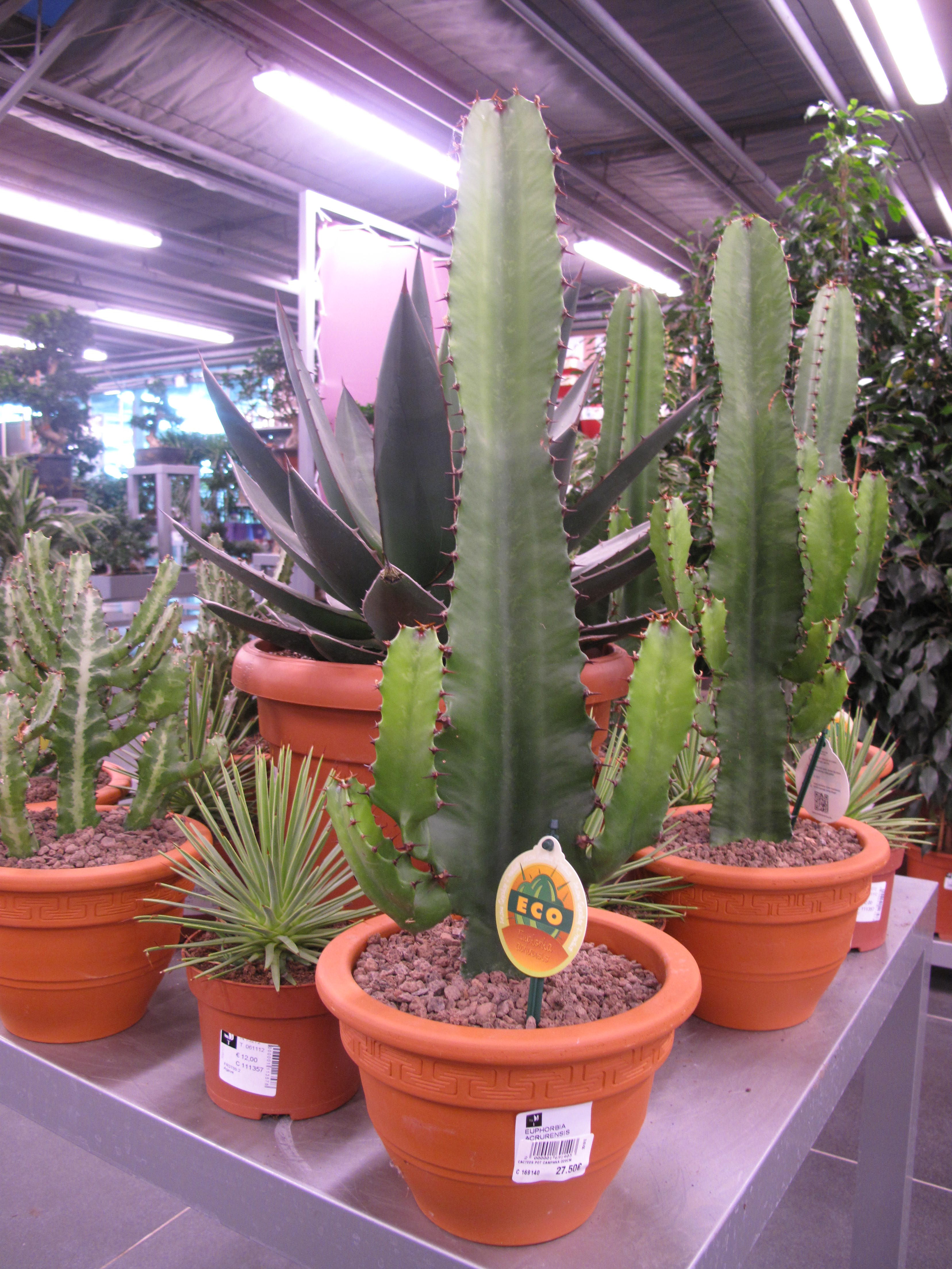 Euphorbia acrurensis (syn. E. abyssinica) in a garden centre. Identified by its commercial botanic label.